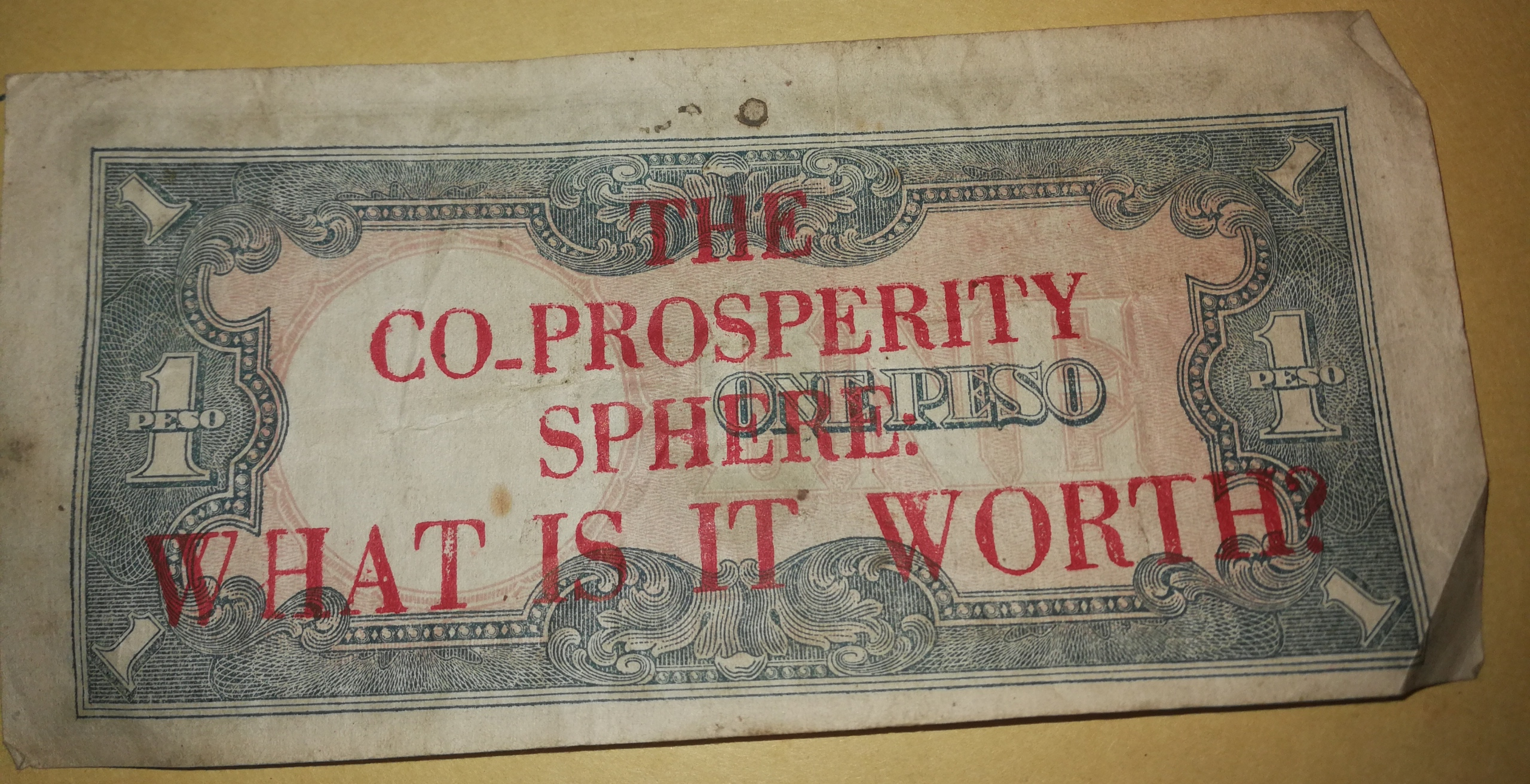 This is a one peso Japanese government-issued Philippine fiat peso note with overprinting that says "The Co-Prosperity Sphere. What is it worth?". We were cleaning out my grandparent's house today and I found this banknote and the wikipedia article about it.